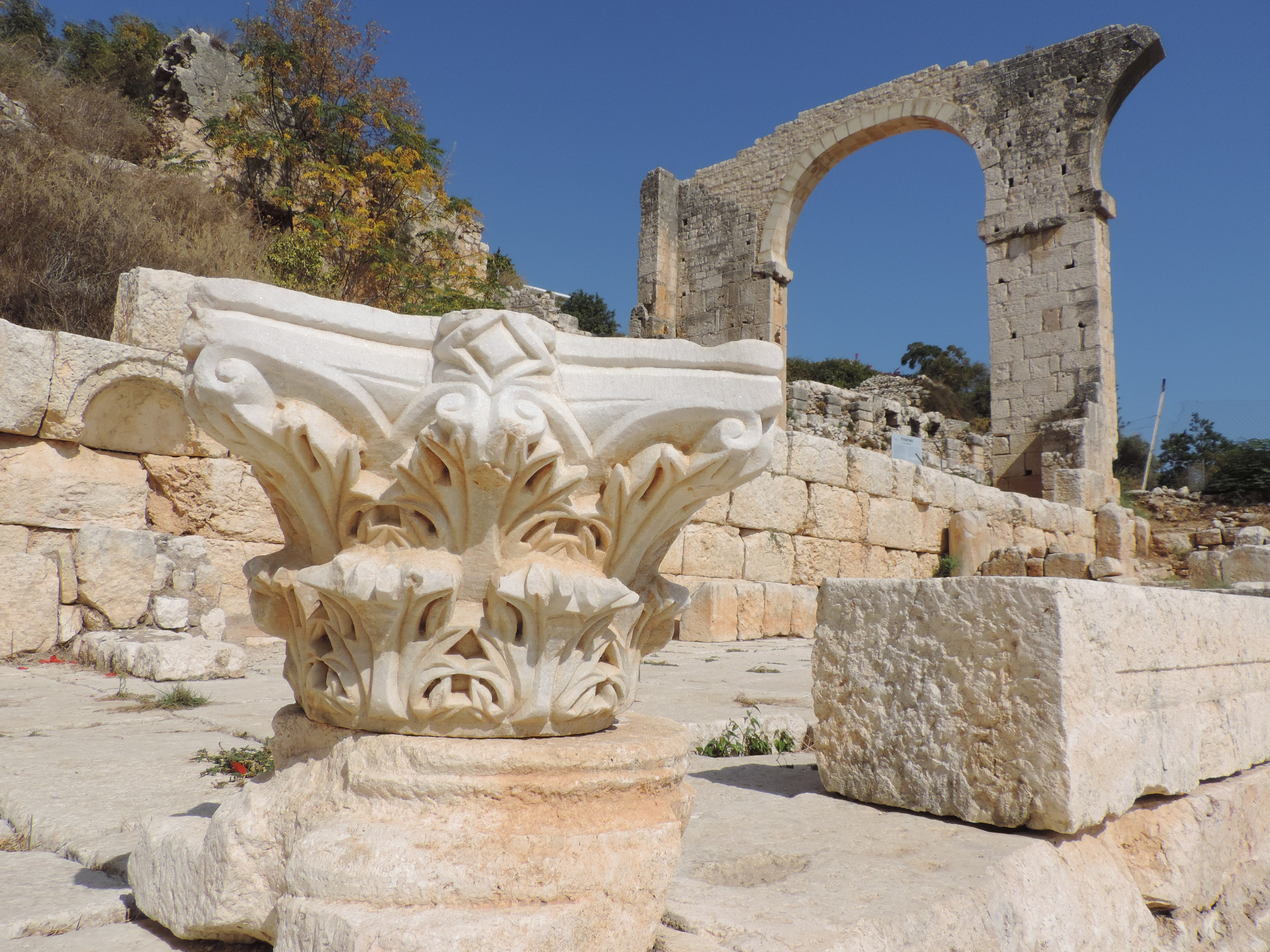 Ancient Roman town Elaiussa Sebaste near modern day Mersin, Turkey - column capital